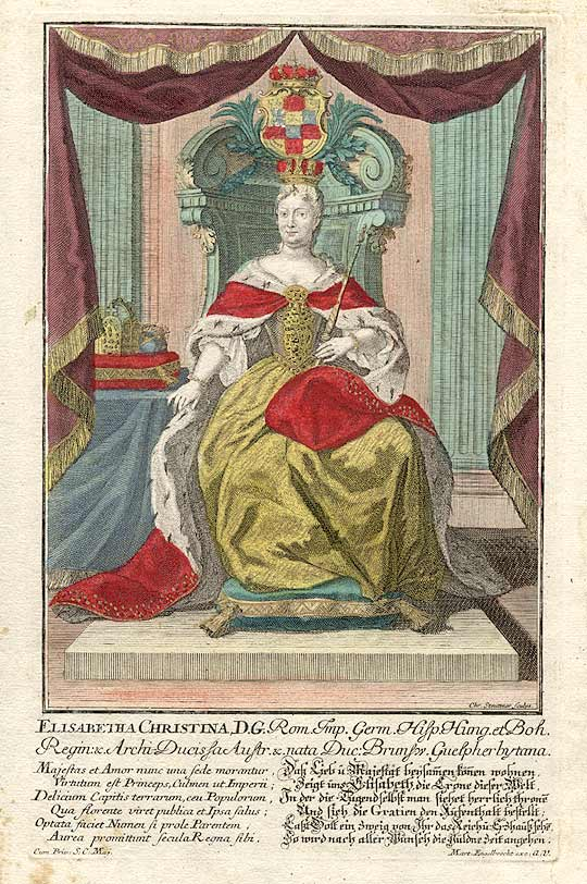 Elisabeth Christine von Braunschweig-Wolfenbüttel (1691-1750), Gemahlin des Kaisers Karl VI. (HRR)